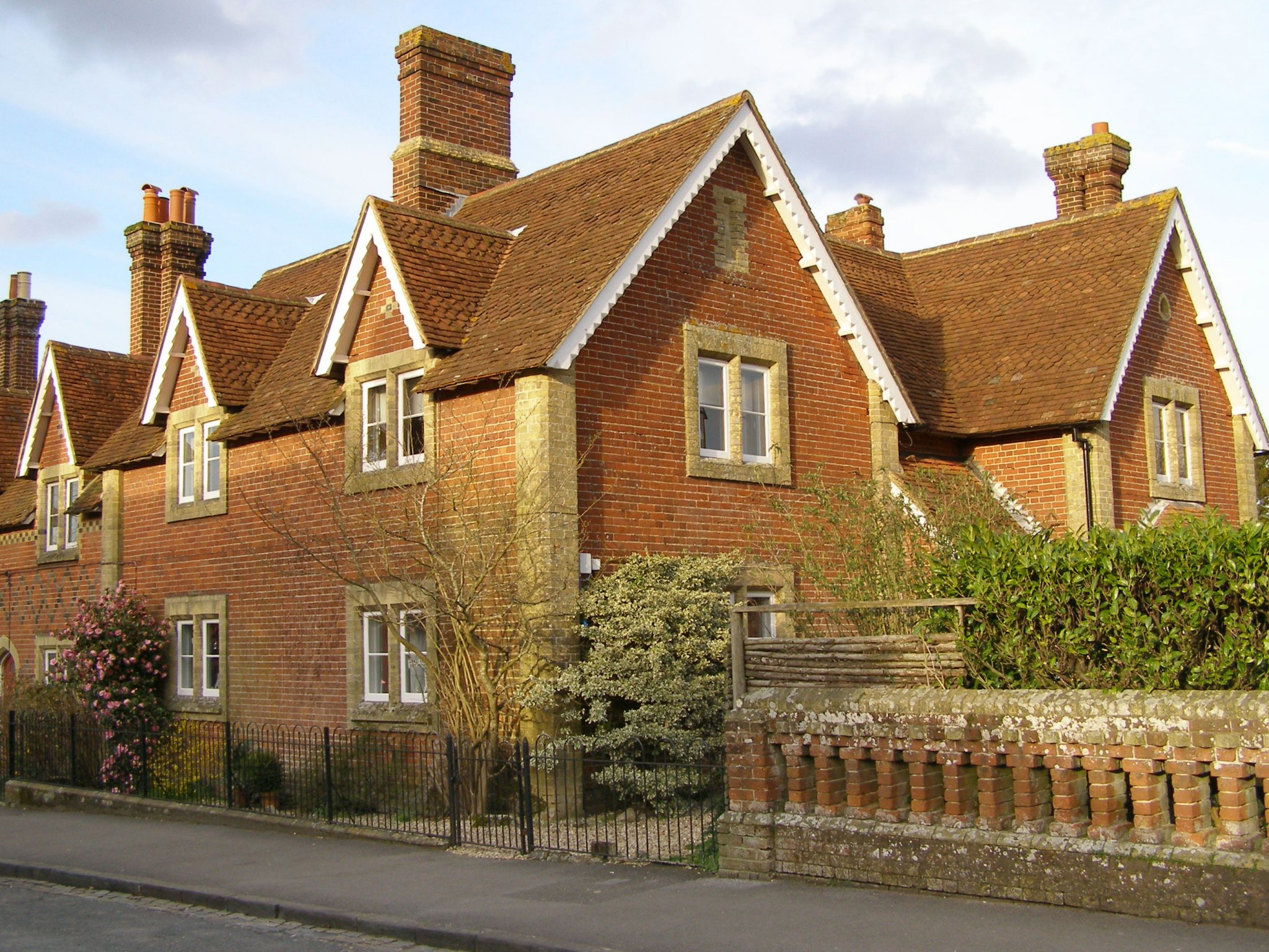 Buccleuch Cottages, Beaulieu, New Forest. These cottages are on the east side of the high street in Beaulieu, with their characteristic dormer windows and chimney stacks. The name is probably related to the Duchess of Buccleuch who owned the Beaulieu Estate in the early 18th century.